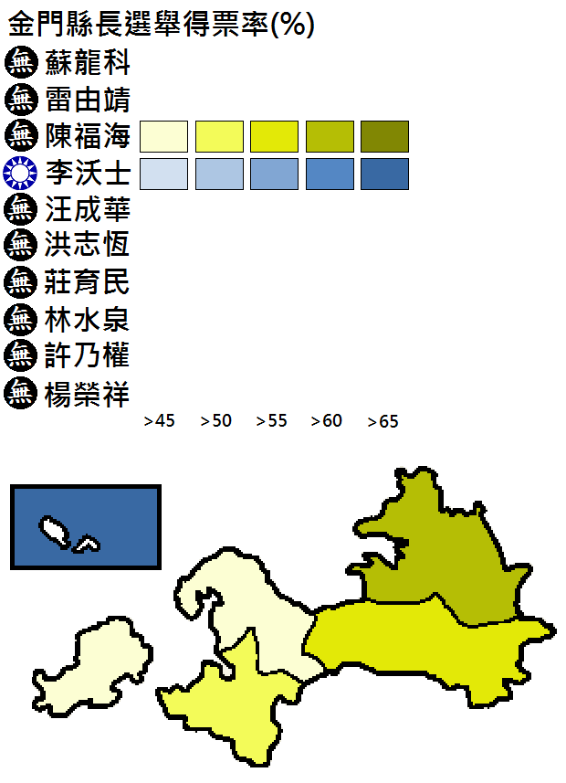 Kinmen 2014